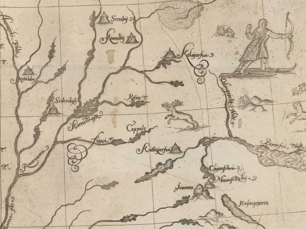 Kemi Sami district in nowadays Finland on Anders Bure's map of the Nordic countries from 1626, Orbis arctoi nova et accurata delineatio. In the left part is a large lake with many islands which is Kemijärvi. Rovaniemi marks the outlet of the river Ounasjoki in Kemijoki. In the right part is the river Oulankajoki which flows into lake Paanajärvi in Carelia. Mount Iivaara, SE of nowadays Kuusamo, is also indicated. The dotted line is the frontier to Russia. The tents symbolize the historic Sami communities of Maanselkä, Kitkijärvi, Kolajärvi, Kemi by (Keminkylä), Somby (Sompio), Sodankylä och Kittilä